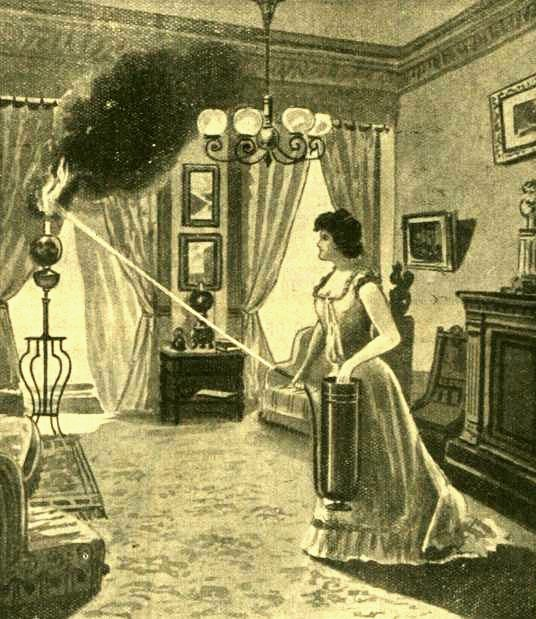 1905 advertisement illustration showing woman using fire extinguisher.